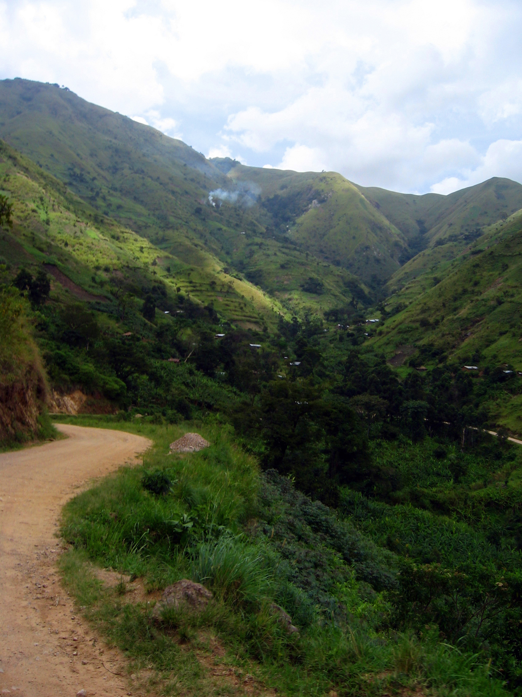 The winding road through the Rwenzori Foothills from Fort Portal to Semilki National Park.